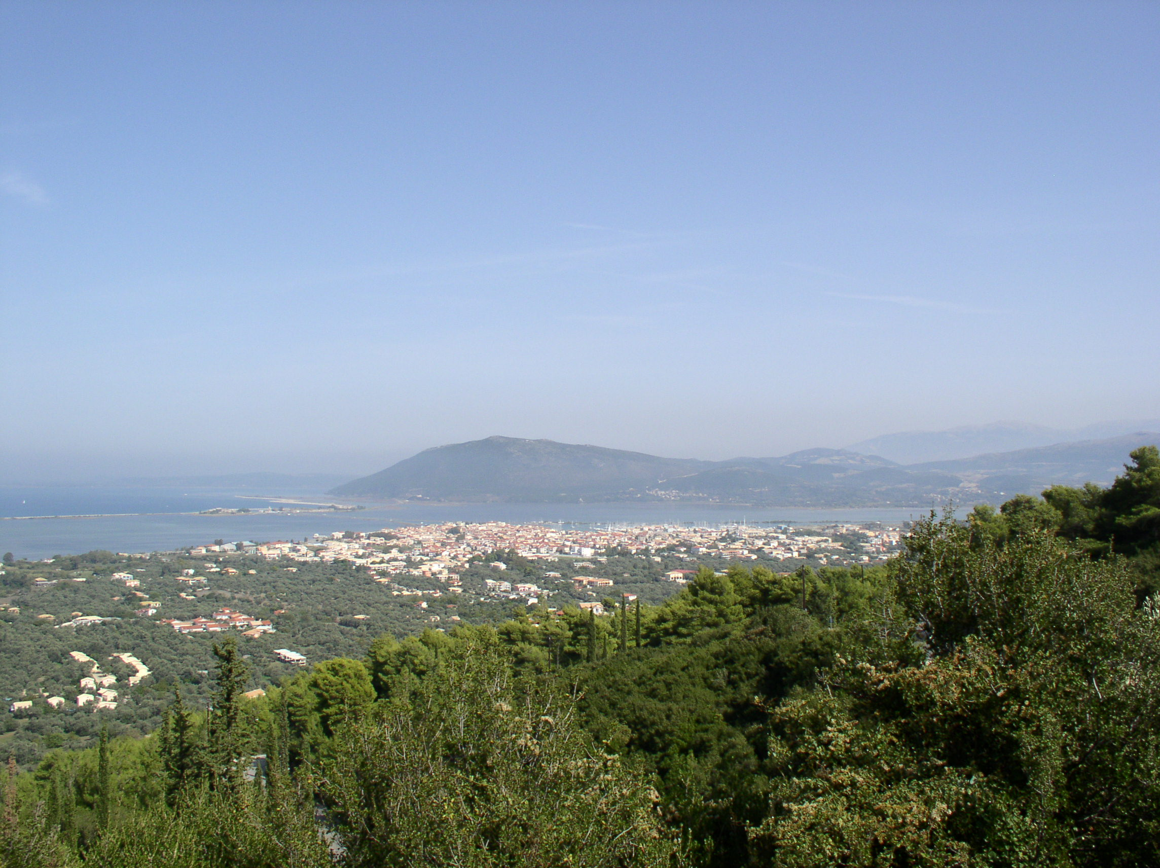 Lefkada town from the hill